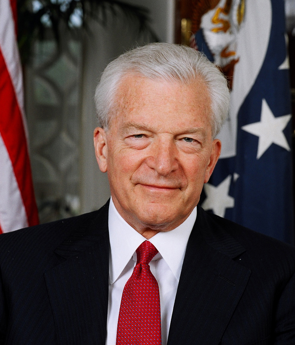 David C. Mulford, U.S. Ambassador to India. Source: United States Embassy in New Delhi: Biography of Ambassador Mulford.